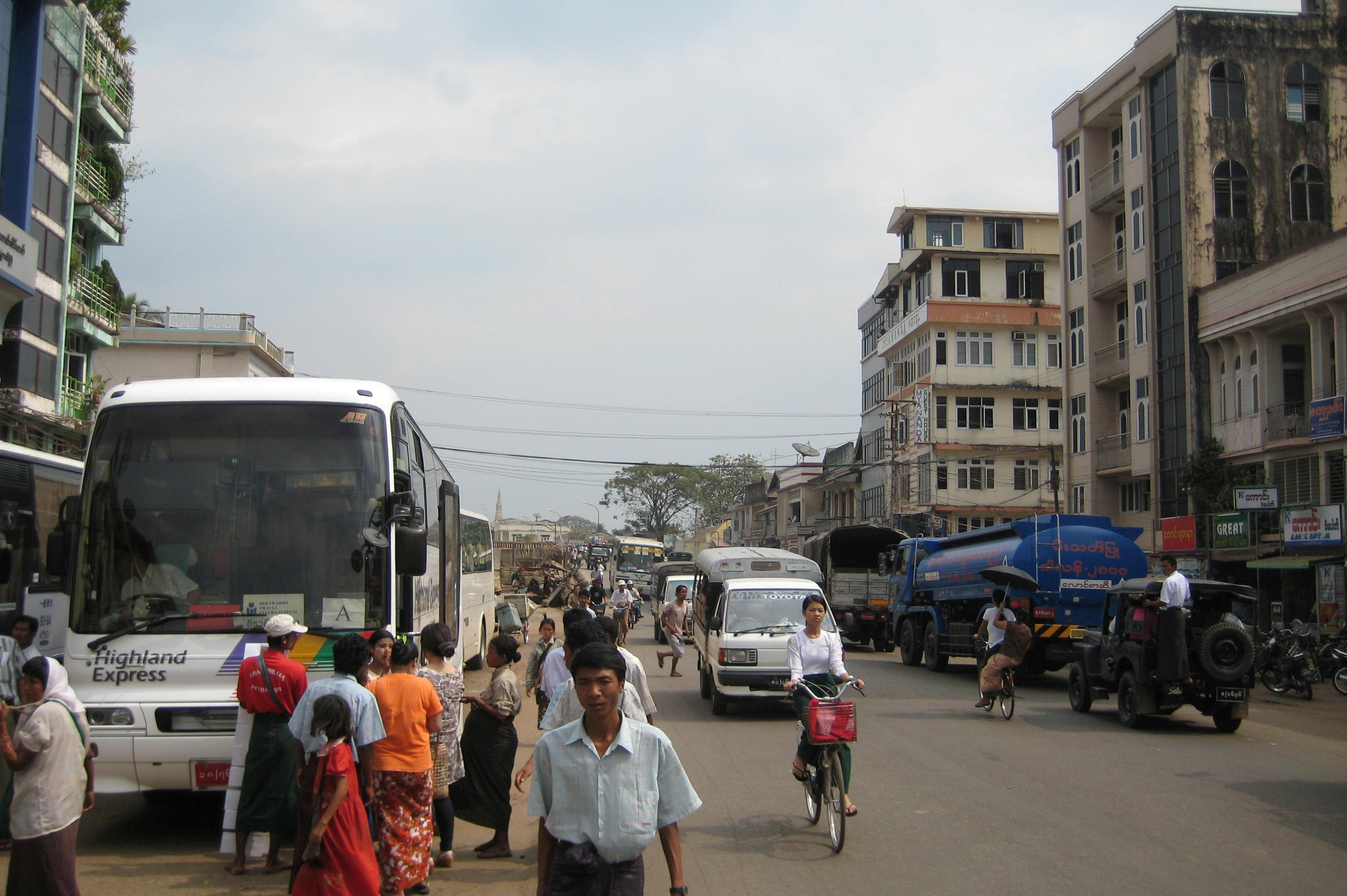 Bago, North and Eastern Myanmar